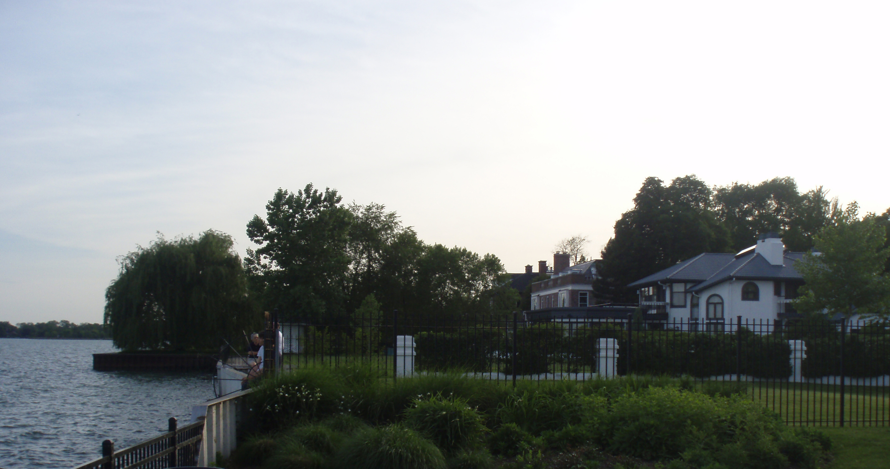 A summer view of a lakeshore neighborhood in Grosse Pointe, MI. Taken at Neff Lakefront Park.